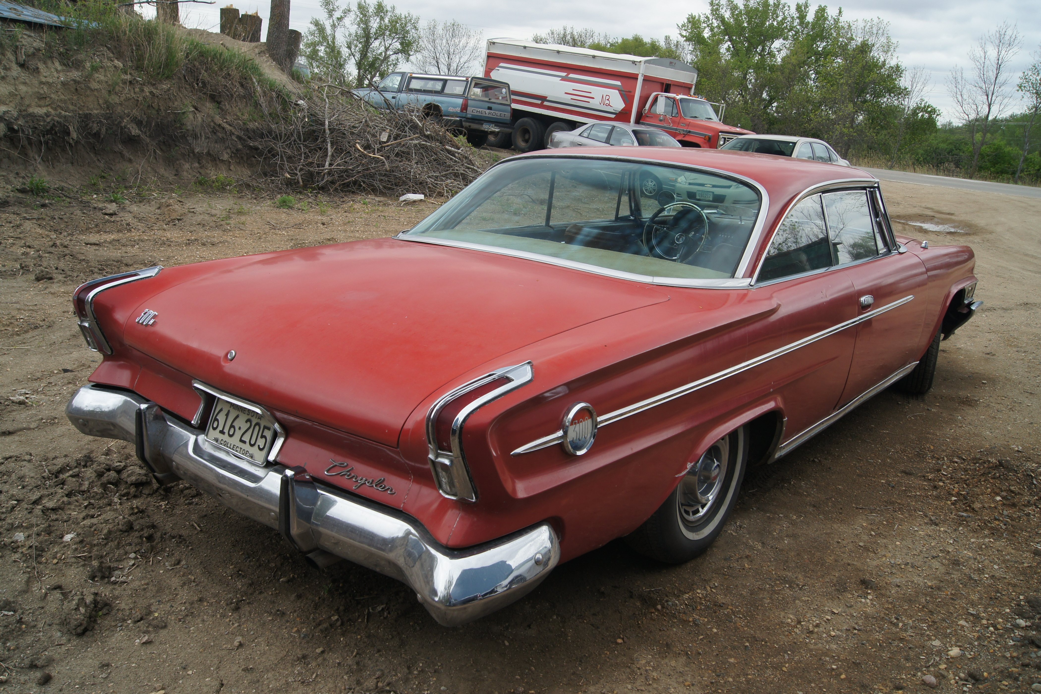 Click here for more car pictures at my Flickr site.